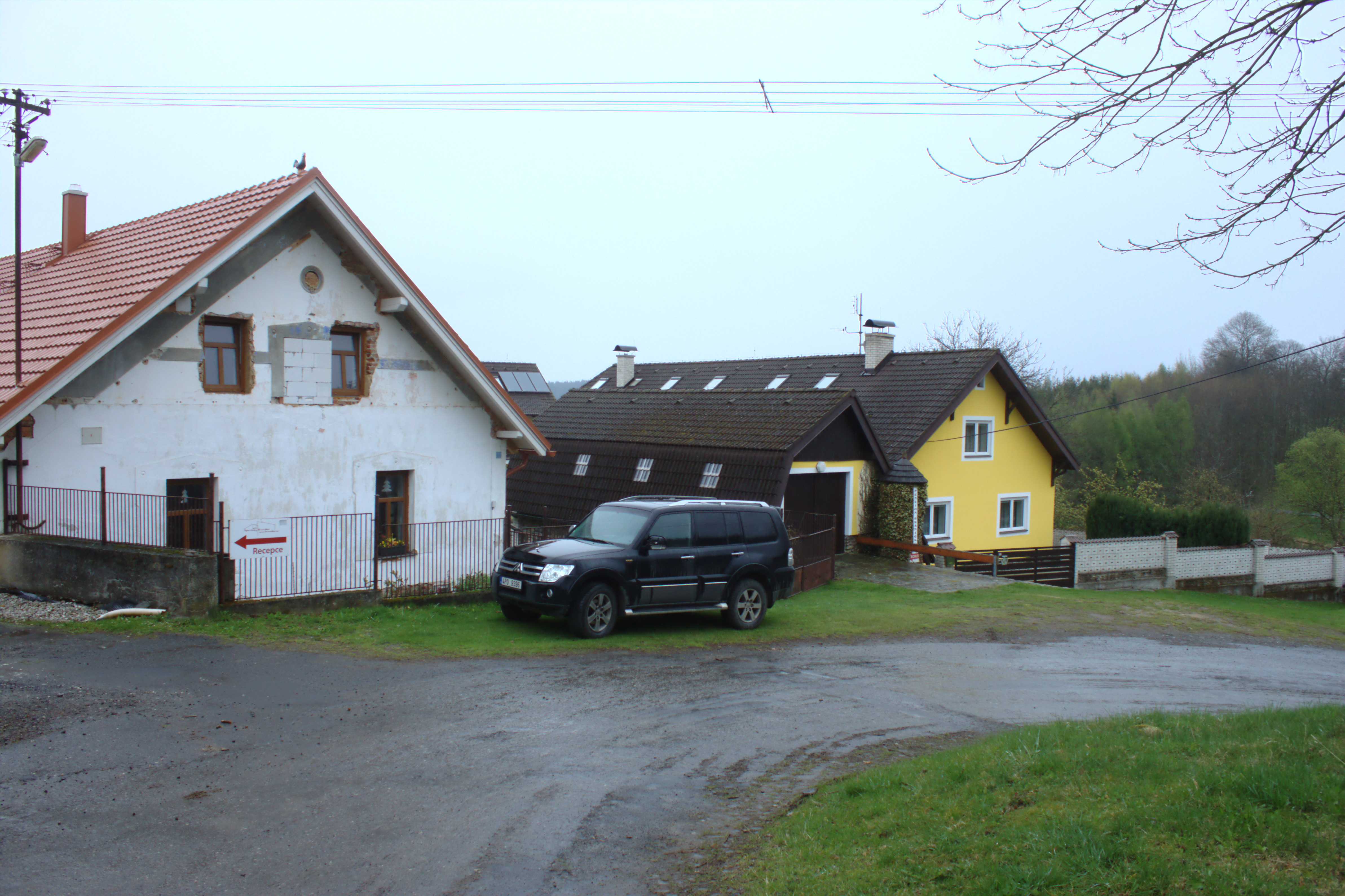 Some buildings in Braníčkov, Plzeň Region, CZ